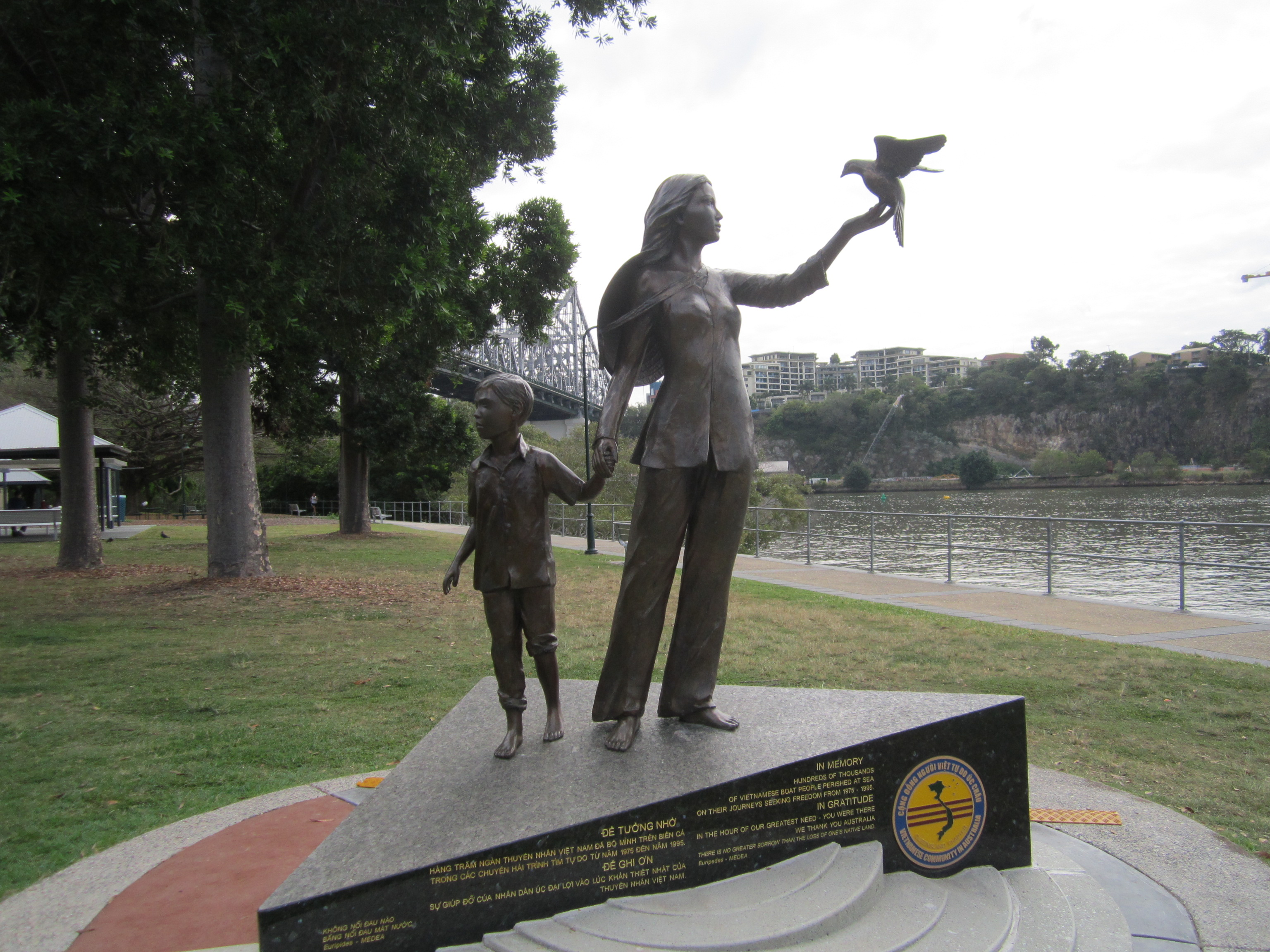 Vietnamese Boat People Memorial, in Brisbane, QLD, dedicated 02.12.2012, executed by Phillip Piperides